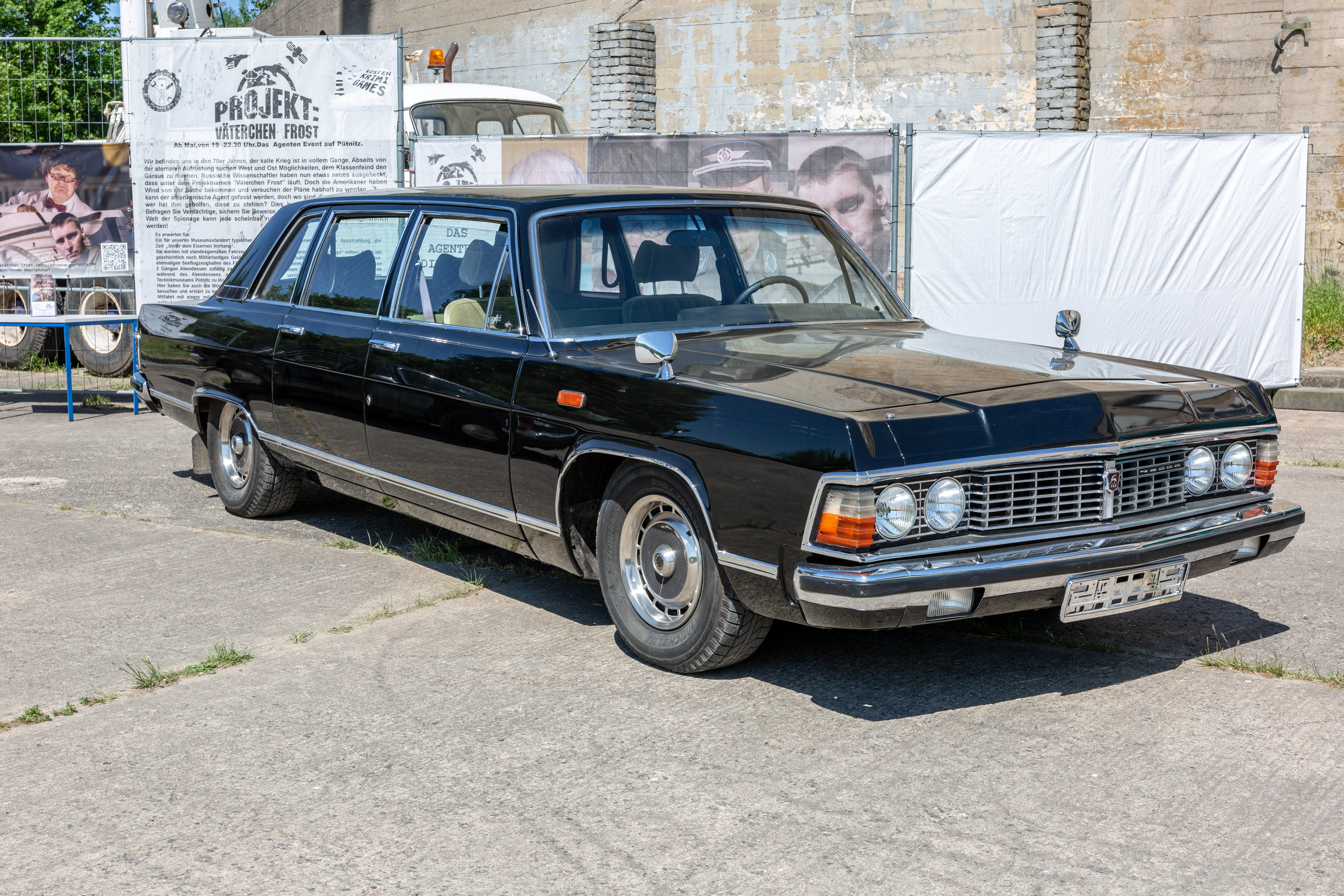 Pfingsttreffen Pütnitz 2018